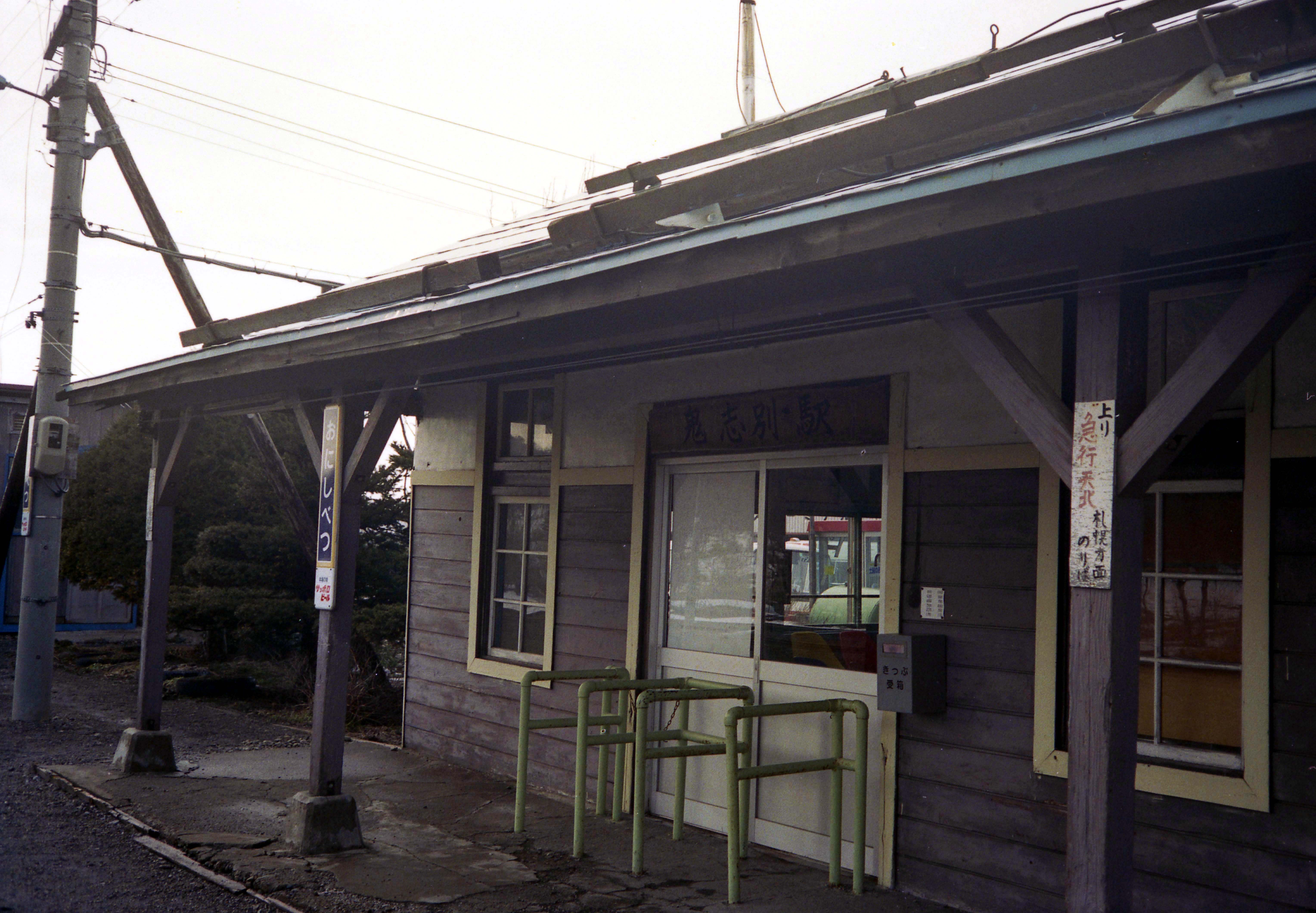 part of the building of Onishibetsu Station,Hokkaido Railway Company Tenpoku Line(before abolished)